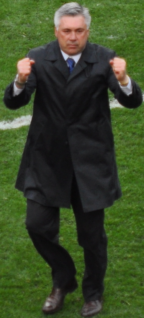 Ancelotti Chelsea